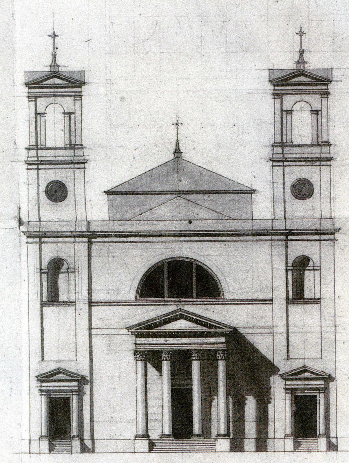 Niet uitgevoerd ontwerp (1827) van Jan de Greef (1784-1834) voor een kathedraal op de Nieuwmarkt te Amsterdam. (De Mozes en Aäronkerk aan het Waterlooplein te Amsterdam is gebaseerd op dit ontwerp.)